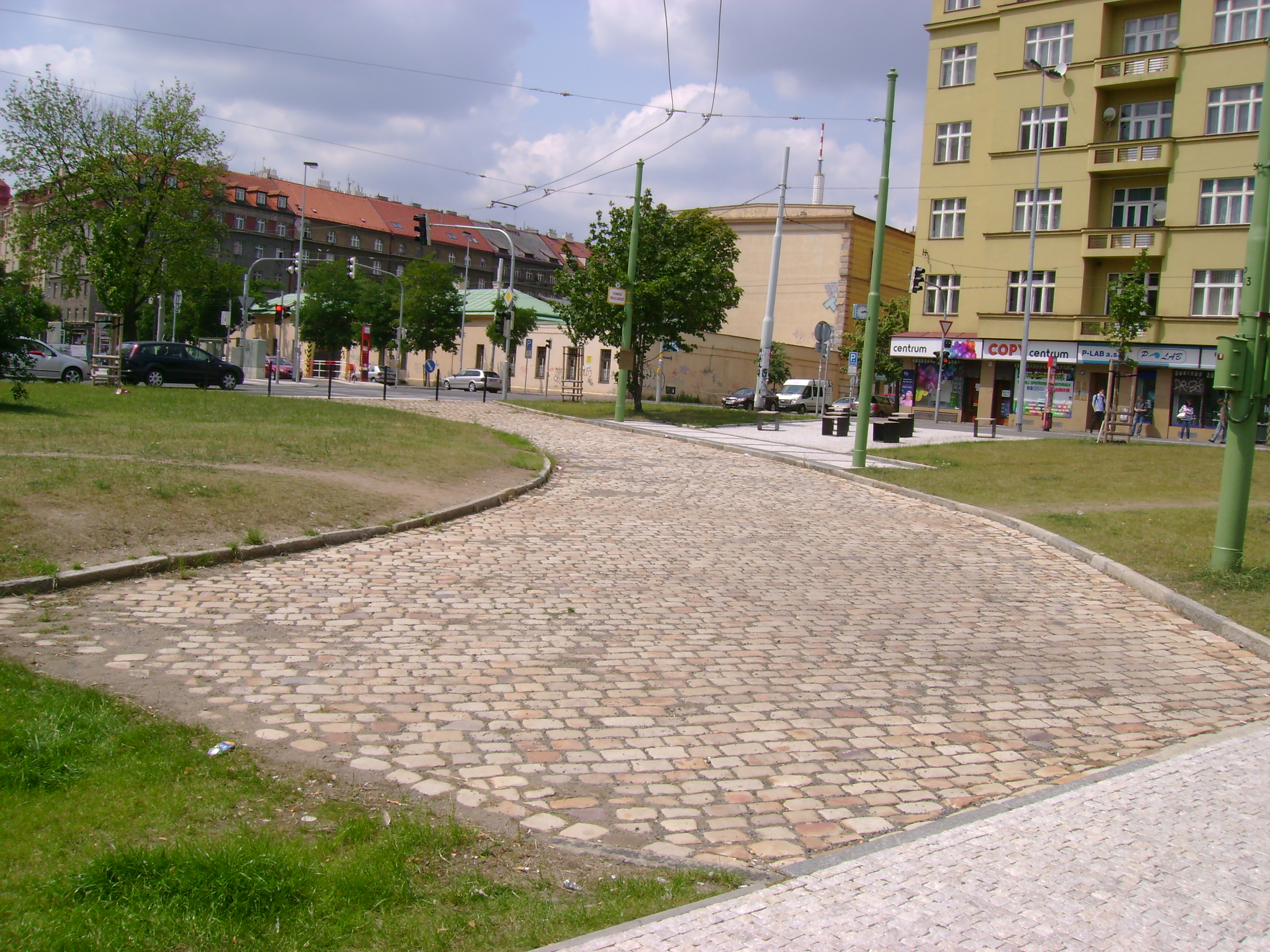 Trolleybus memorial at Orionka, Prague-Vinohrady, the Czech Republic.